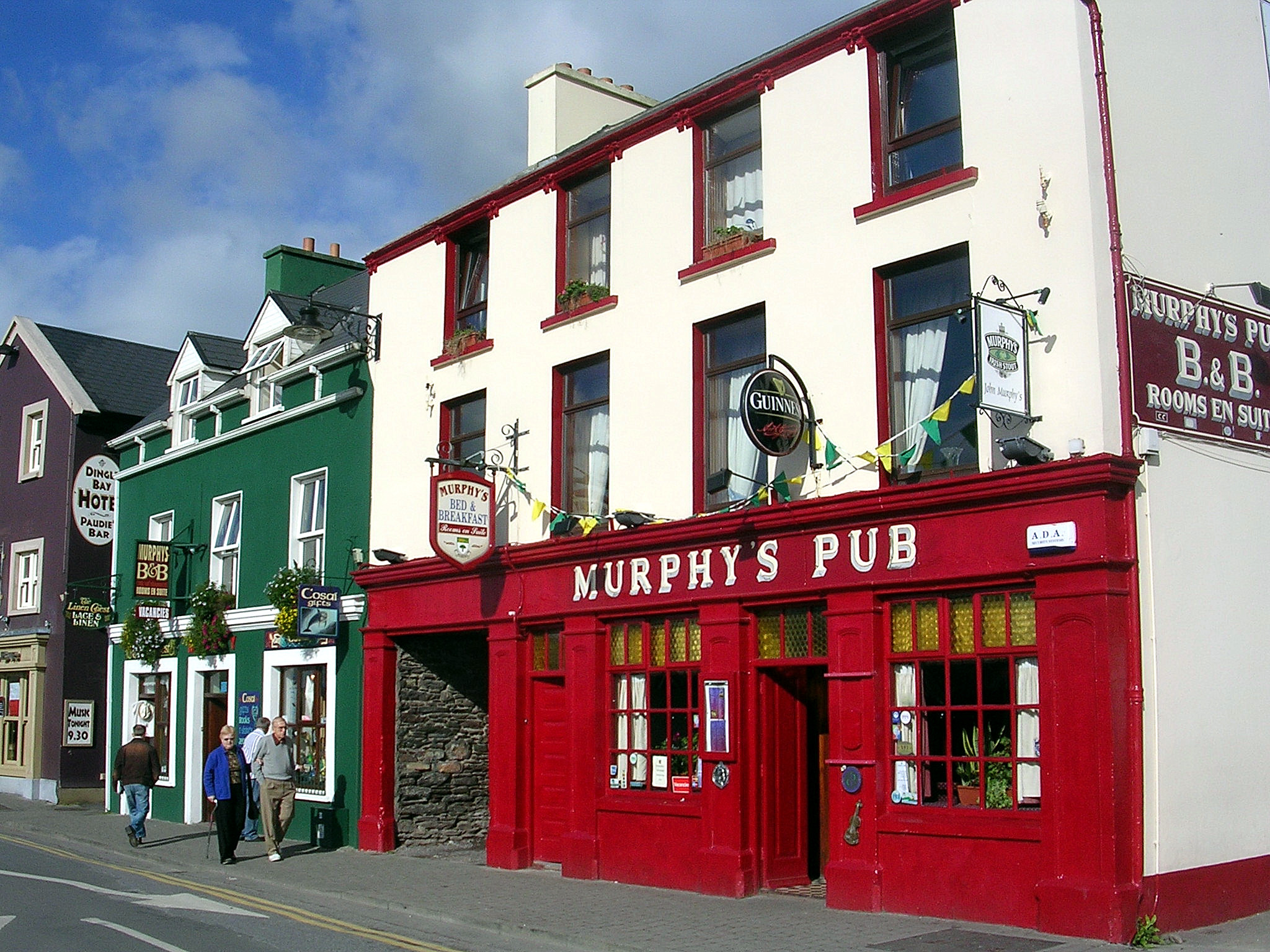 Dingle, County Kerry, Ireland